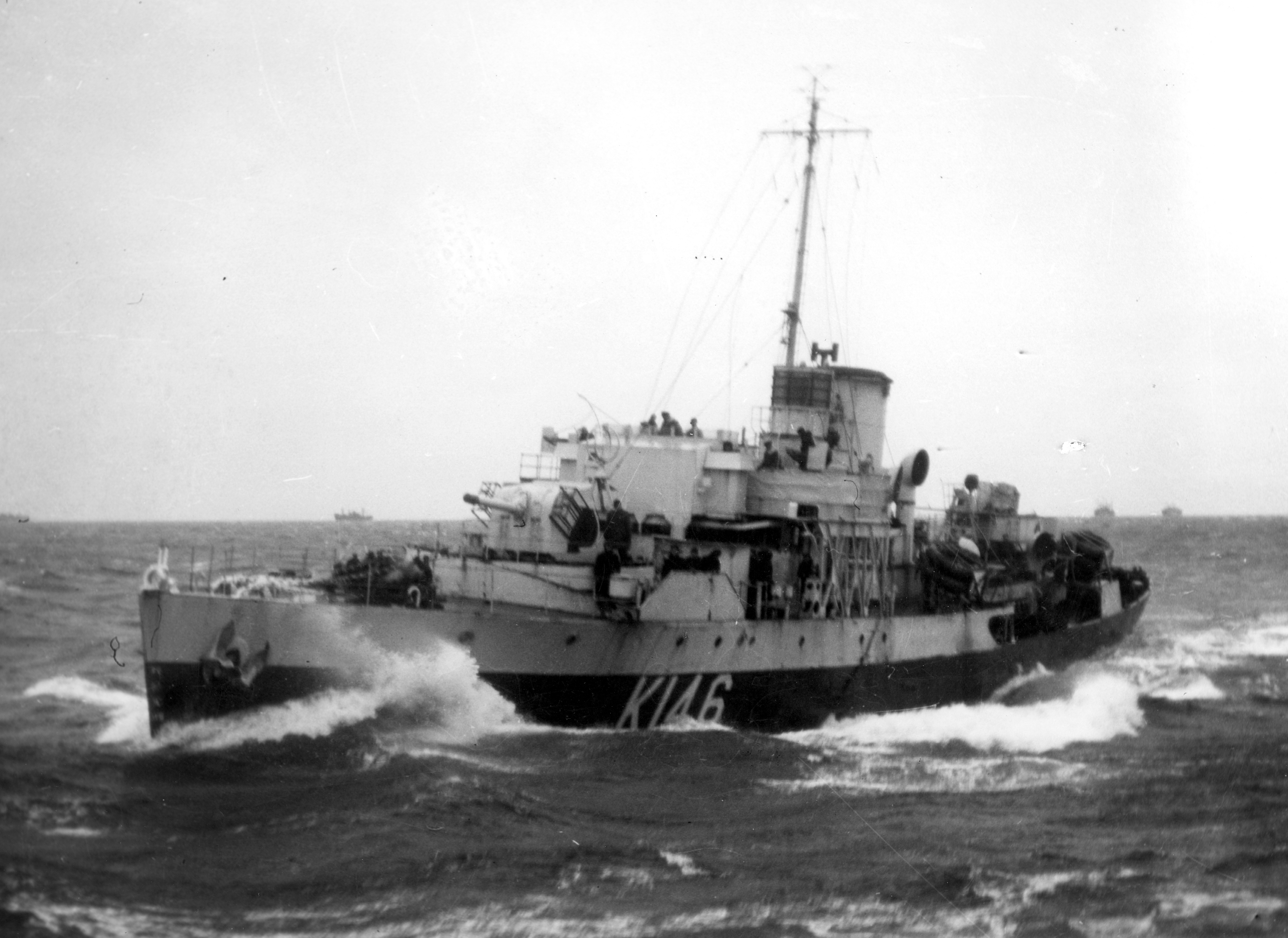 HMCS Pictou circa 1944 - 1945. Note merchant ships in background.